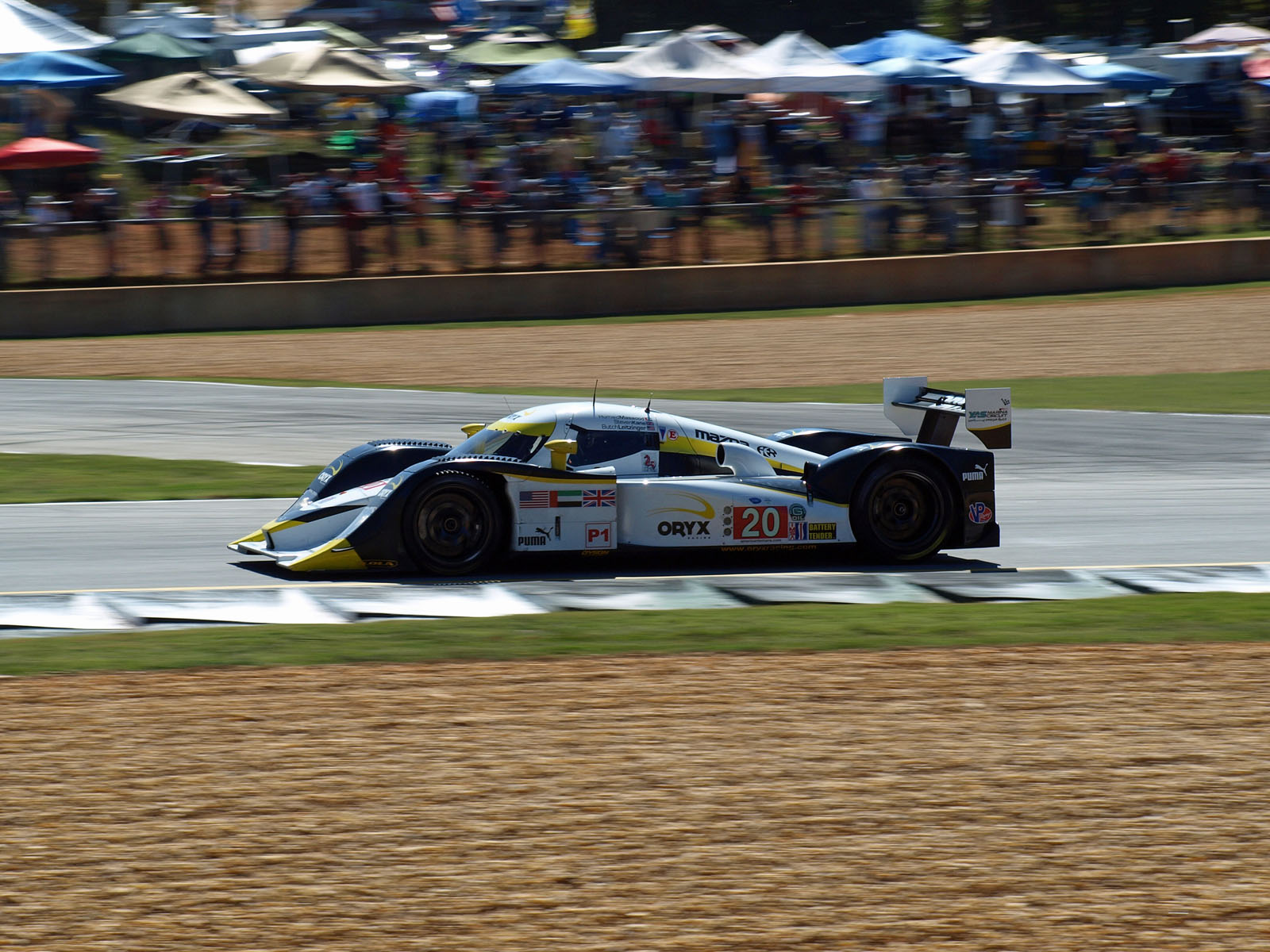 Butch Leitzinger driving the Dyson Racing Lola B09/86 in the 2011 Petit Le Mans at Road Atlanta.